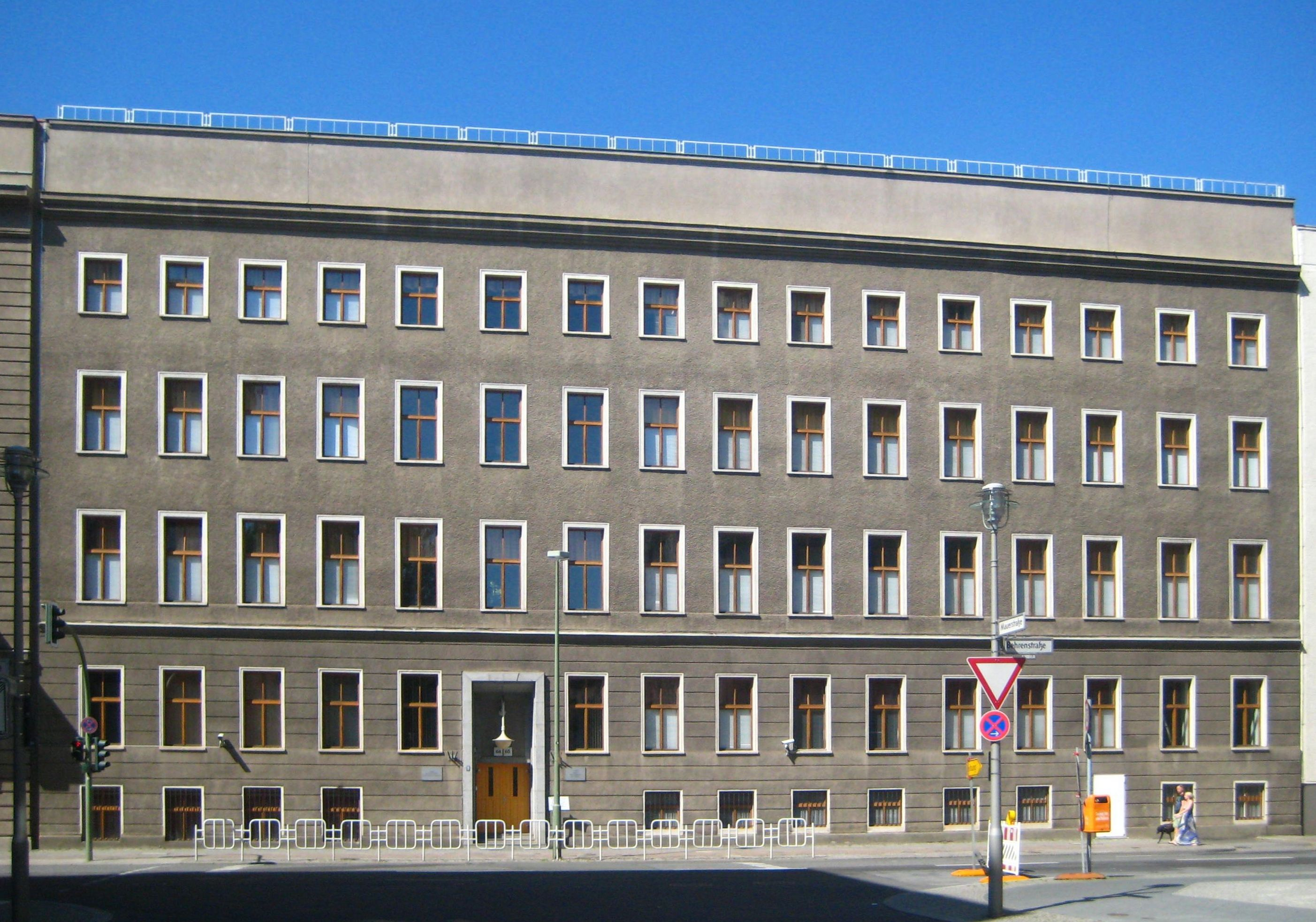 The former Windsor Hotel at Behrenstraße 64-65 in Berlin-Mitte, now serving as the location of a school associated with the Embassy of the Russian Federation. Constructed around 1840 as a residence, it was converted into a hotel in 1871, containing approximately 90 basic rooms. The building was reconstructed in 1950.